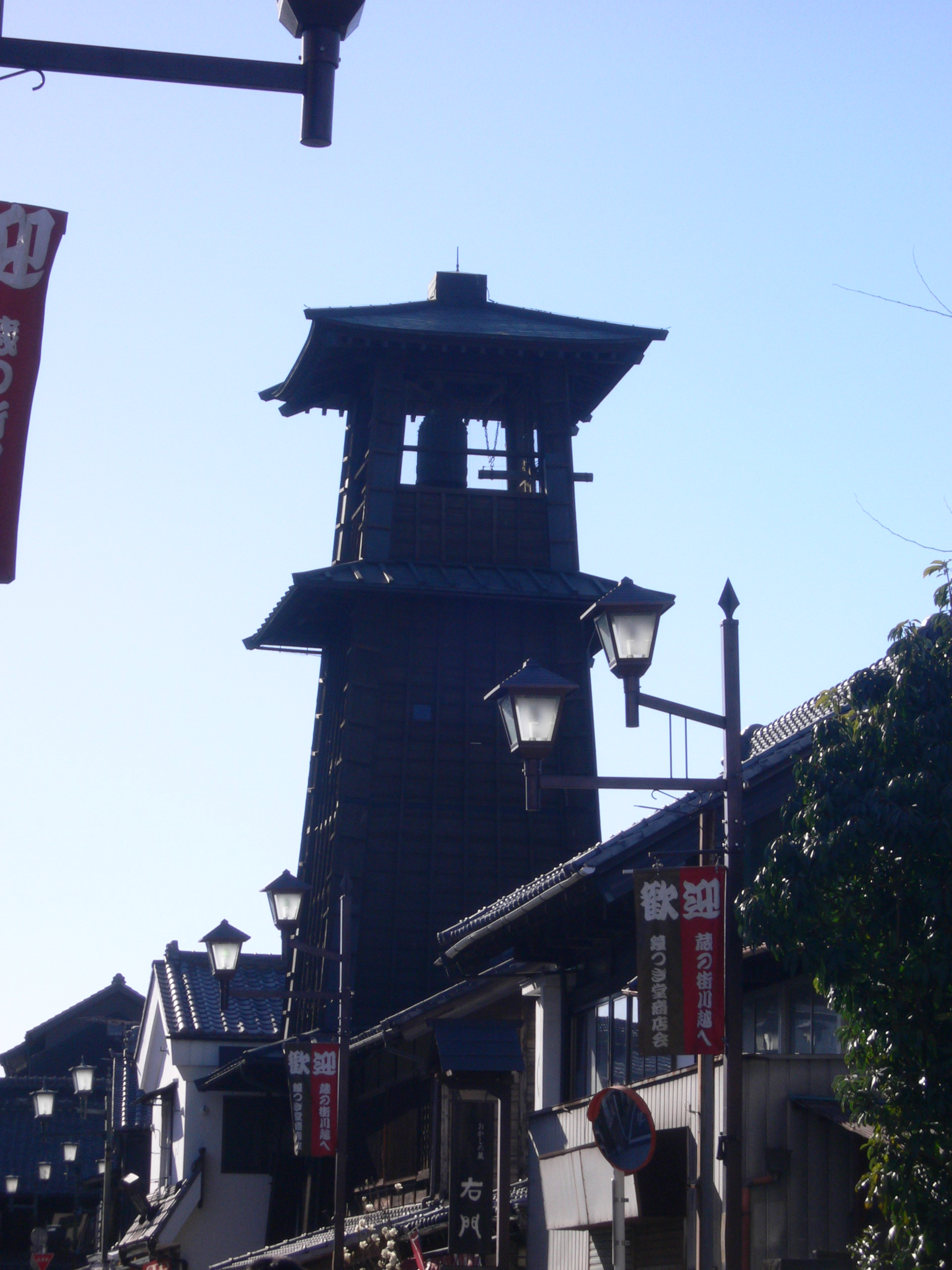 Tokinokane (時の鐘), Kawagoe C, Saitama P.